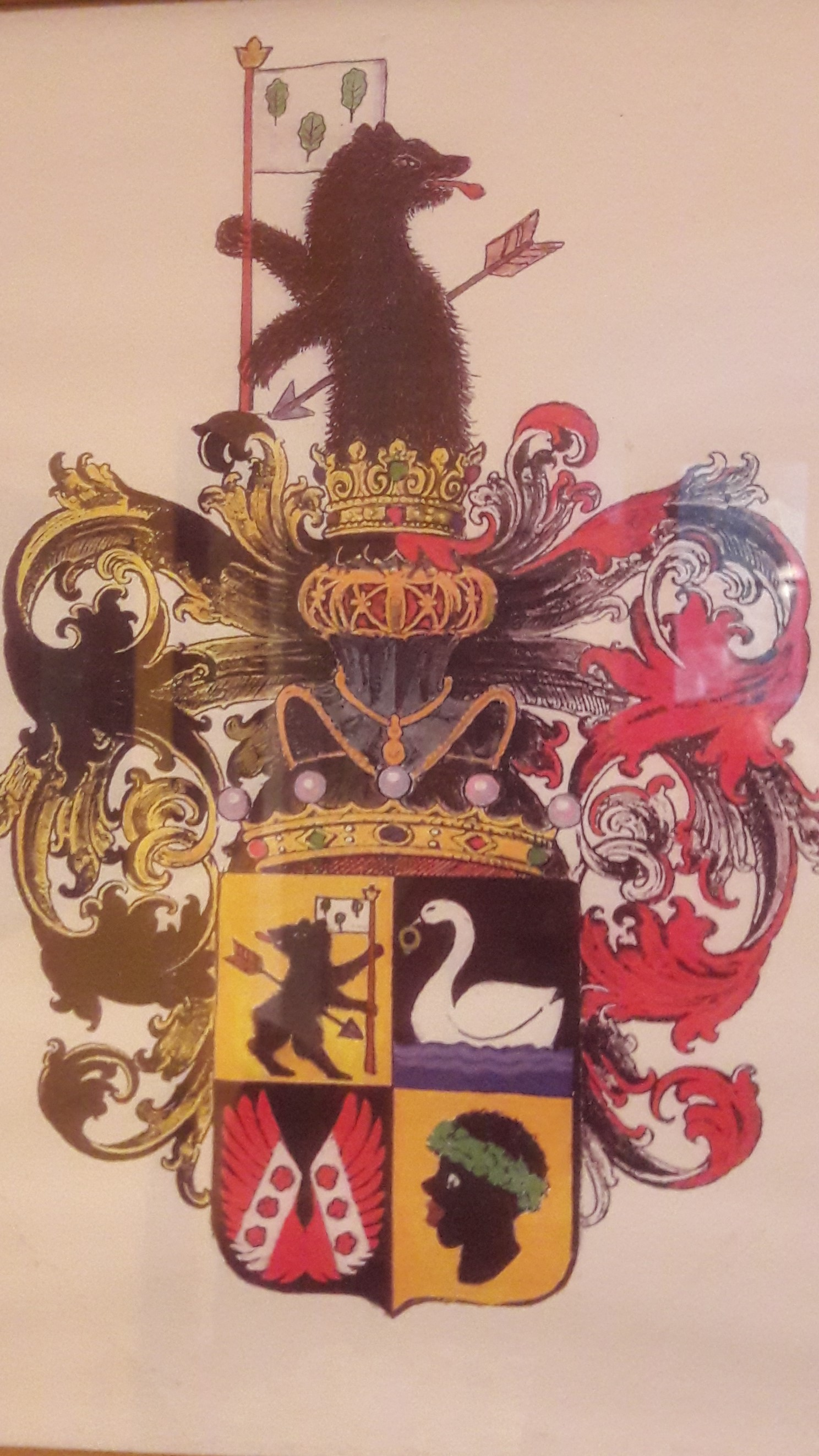 Coat of arms of the family Ehrlich von Ehrnfeldt since 18 october 1668